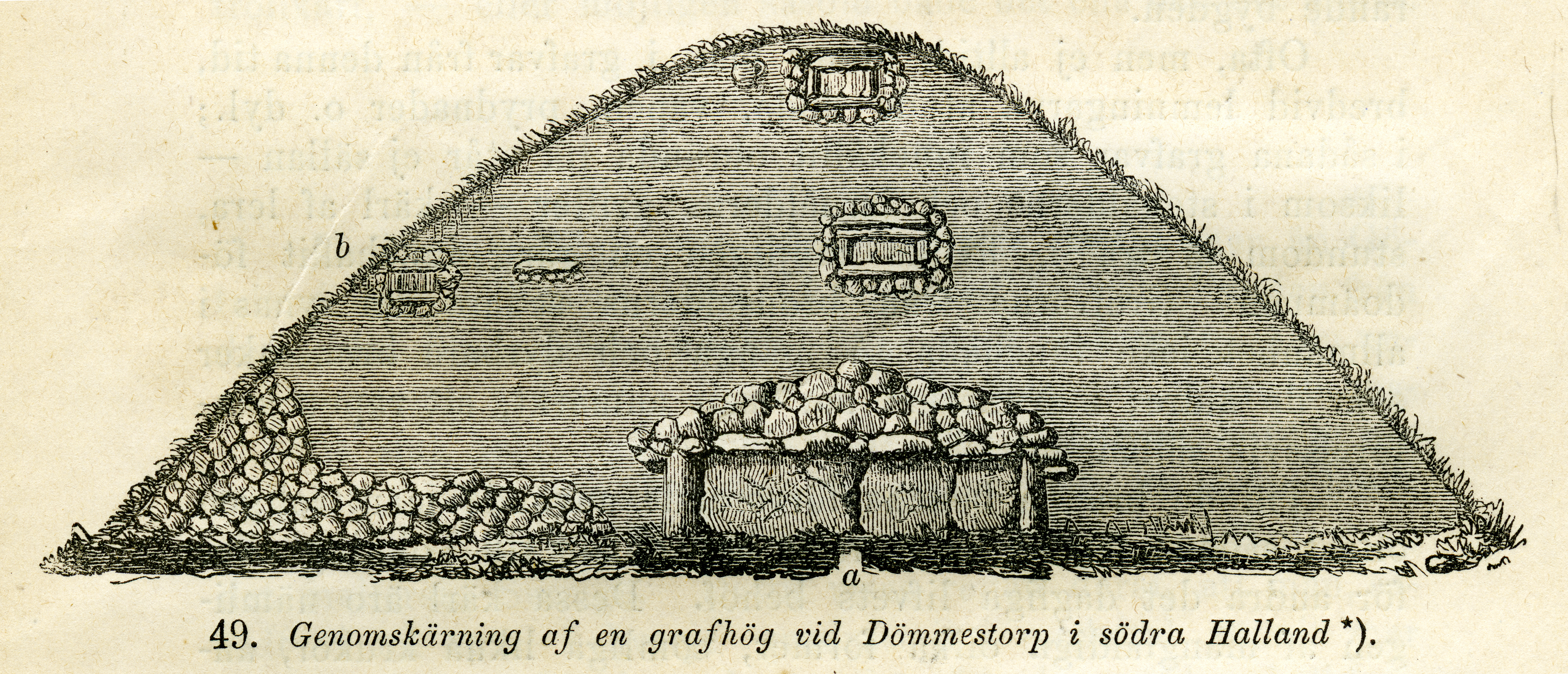 Section of a barrow at Dömestorp in Hasslöv parish, Hök hundred, Laholm municipality, Southern Halland, Sweden.